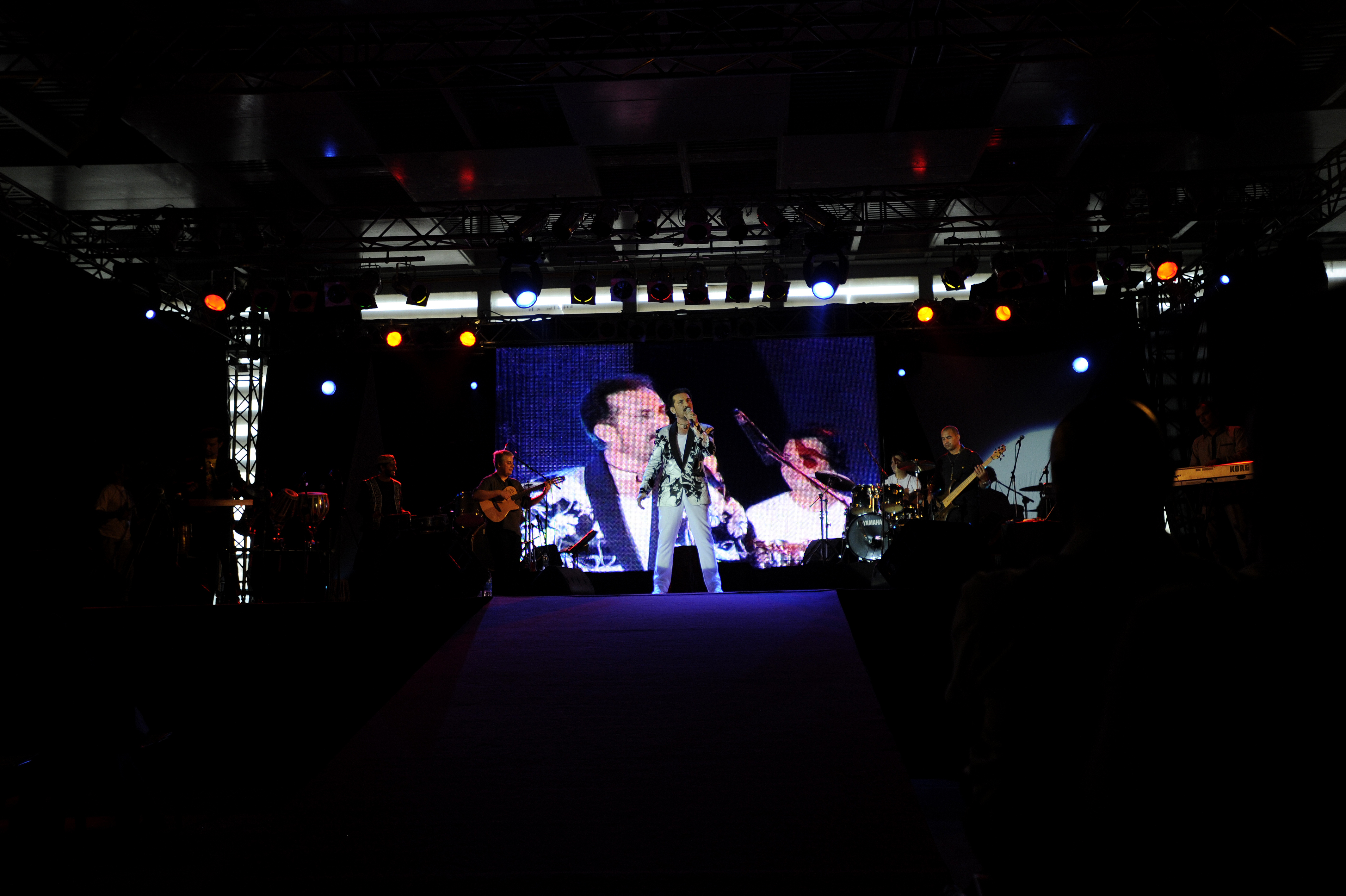 Farhad Darya at the July 2010 Peace Concert in Kabul, Afghanistan.